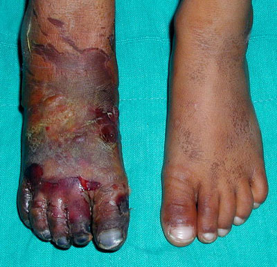 Gangrene of the foot from a plaster cast.